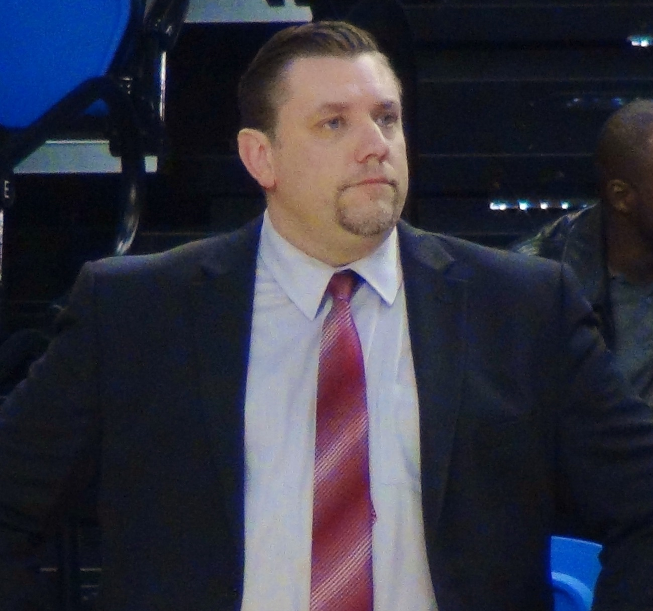 Todd Simon, men's basketball head coach for Southern Utah University, at the Event Center in San Jose, Calif. for Southern Utah's game at San Jose State on Dec. 21, 2016.